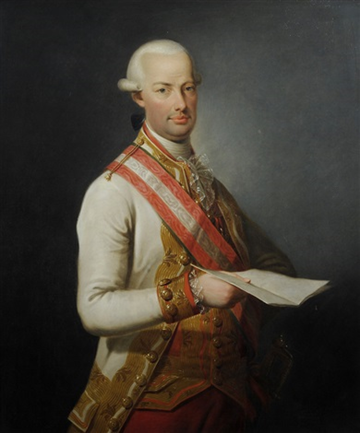 Kaiser Leopold II.